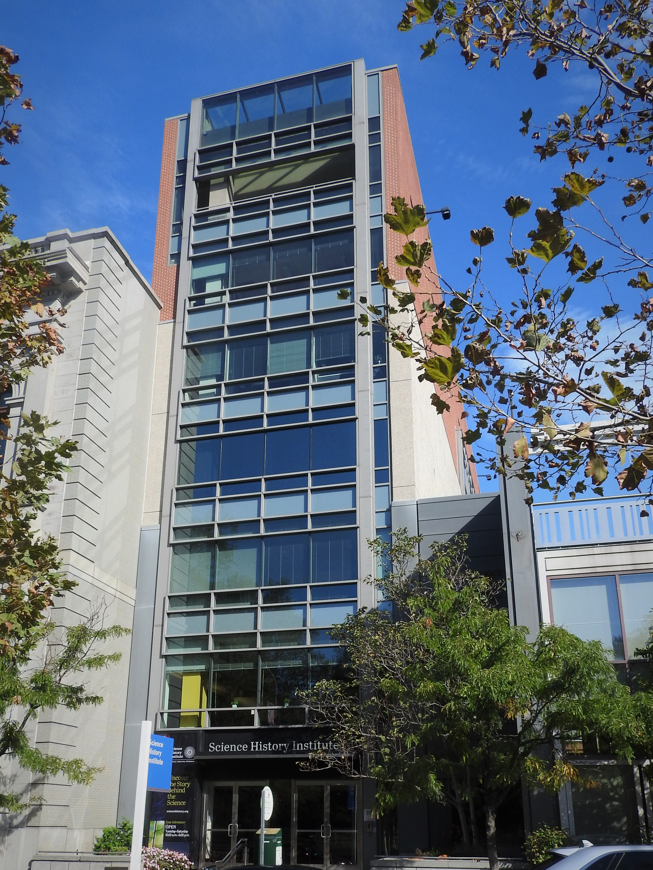 Looking north across Chestnut Street on a sunny late morning